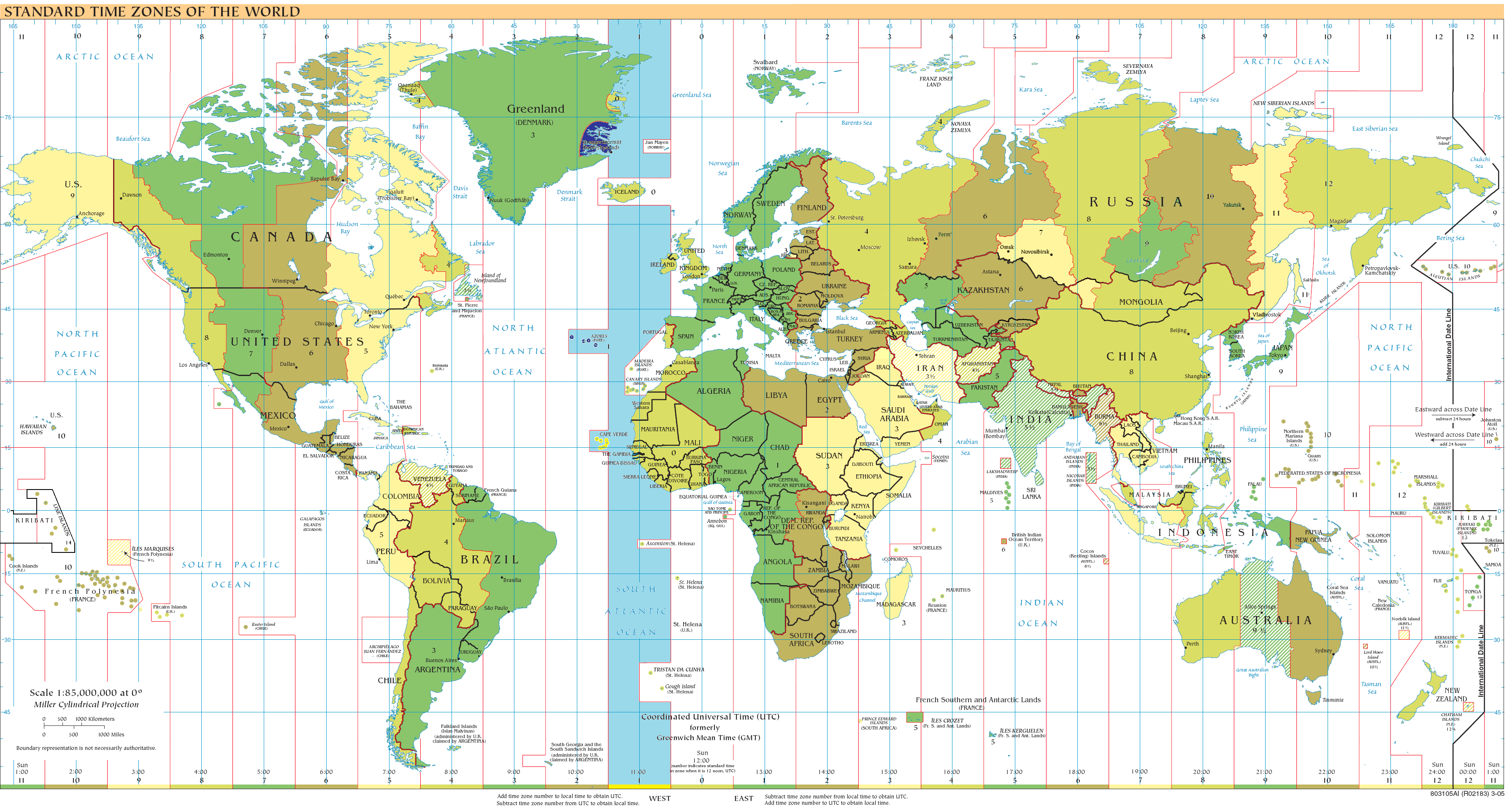 Copied from Timezones2008.png - highlighting UTC-1 Dark Blue - UTC-1 during Northern Winter/ Southern Summer Orange - UTC-1 during Northern Summer/ Southern Winter Yellow - UTC-1 all year round Light Blue - UTC-1 sea areas